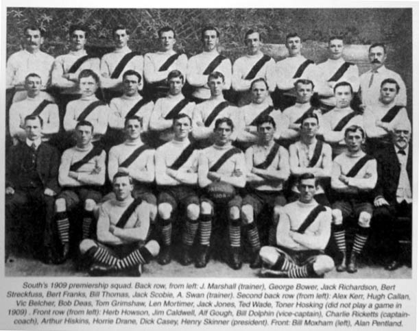 The South Melbourne FC (current Sydney Swans) that won the VFA and Championship of Australia.